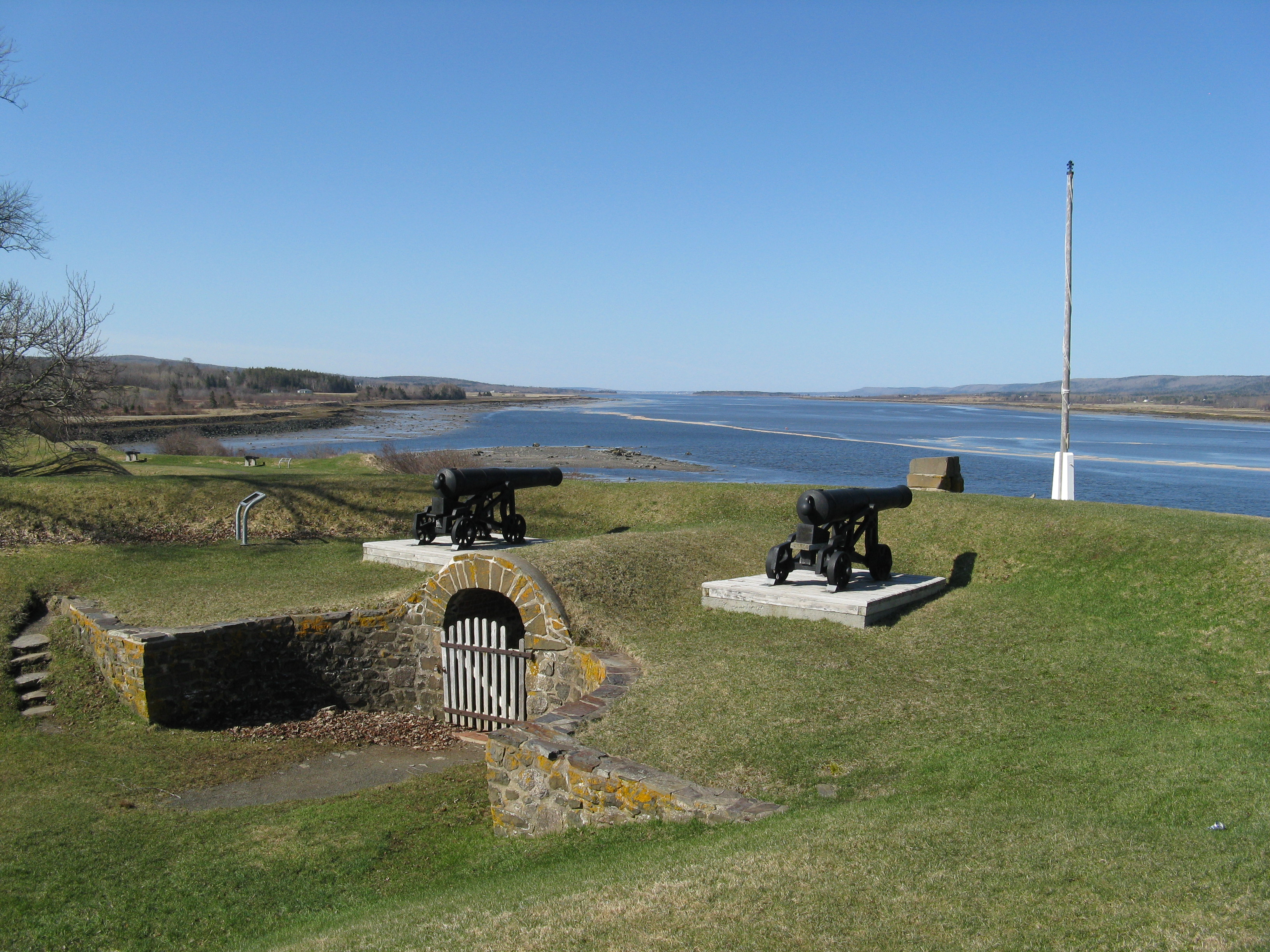 View of Annapolis Basin from the ramparts of Fort Anne National Historic Site, Annapolis Royal, Nova Scotia